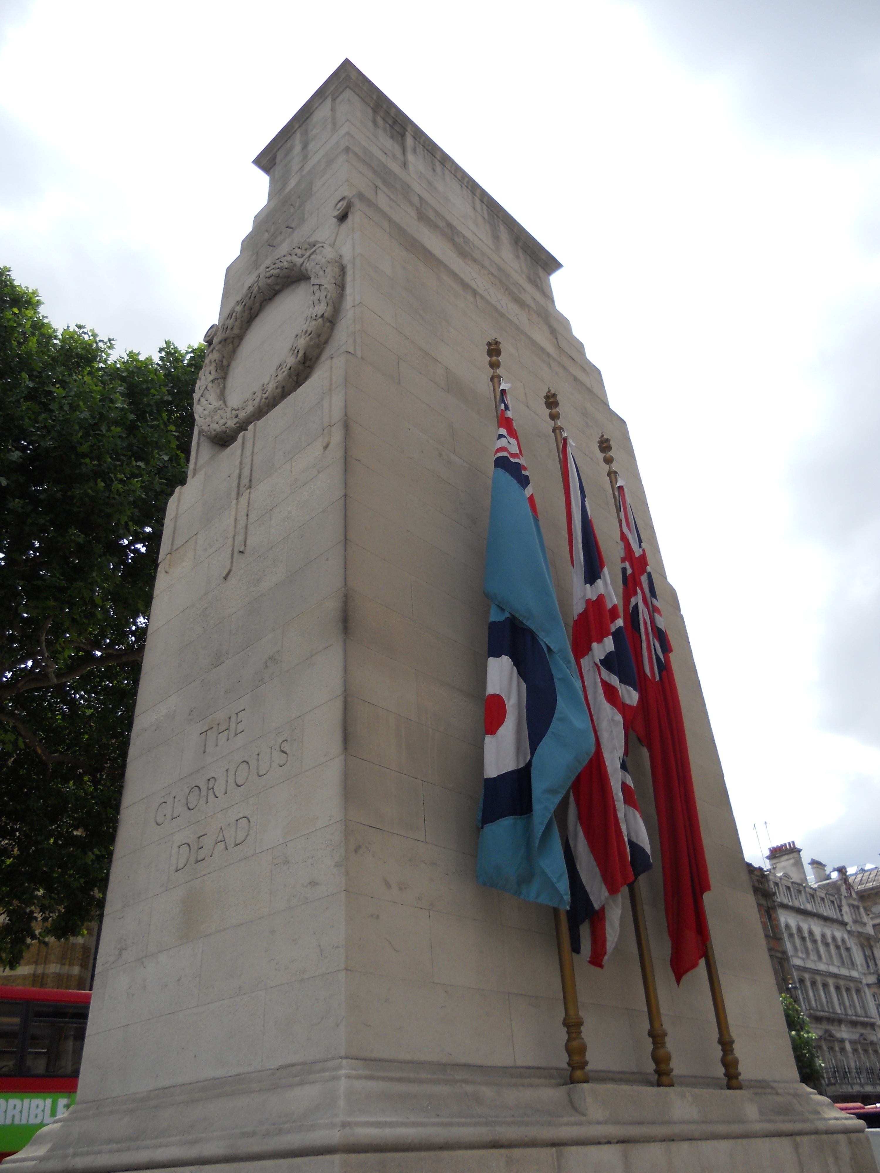 The Cenotaph, Whitehall, London. Part of a series taken from different angles.